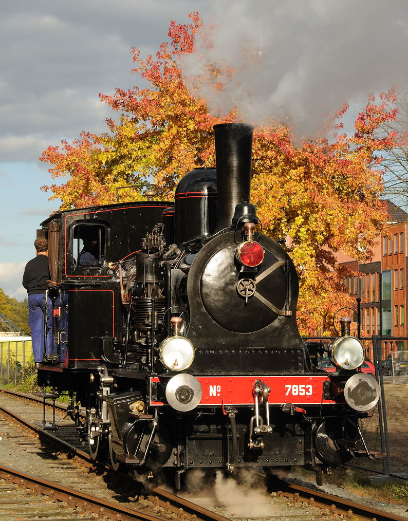 MBS replica 7853 at Boekelo.